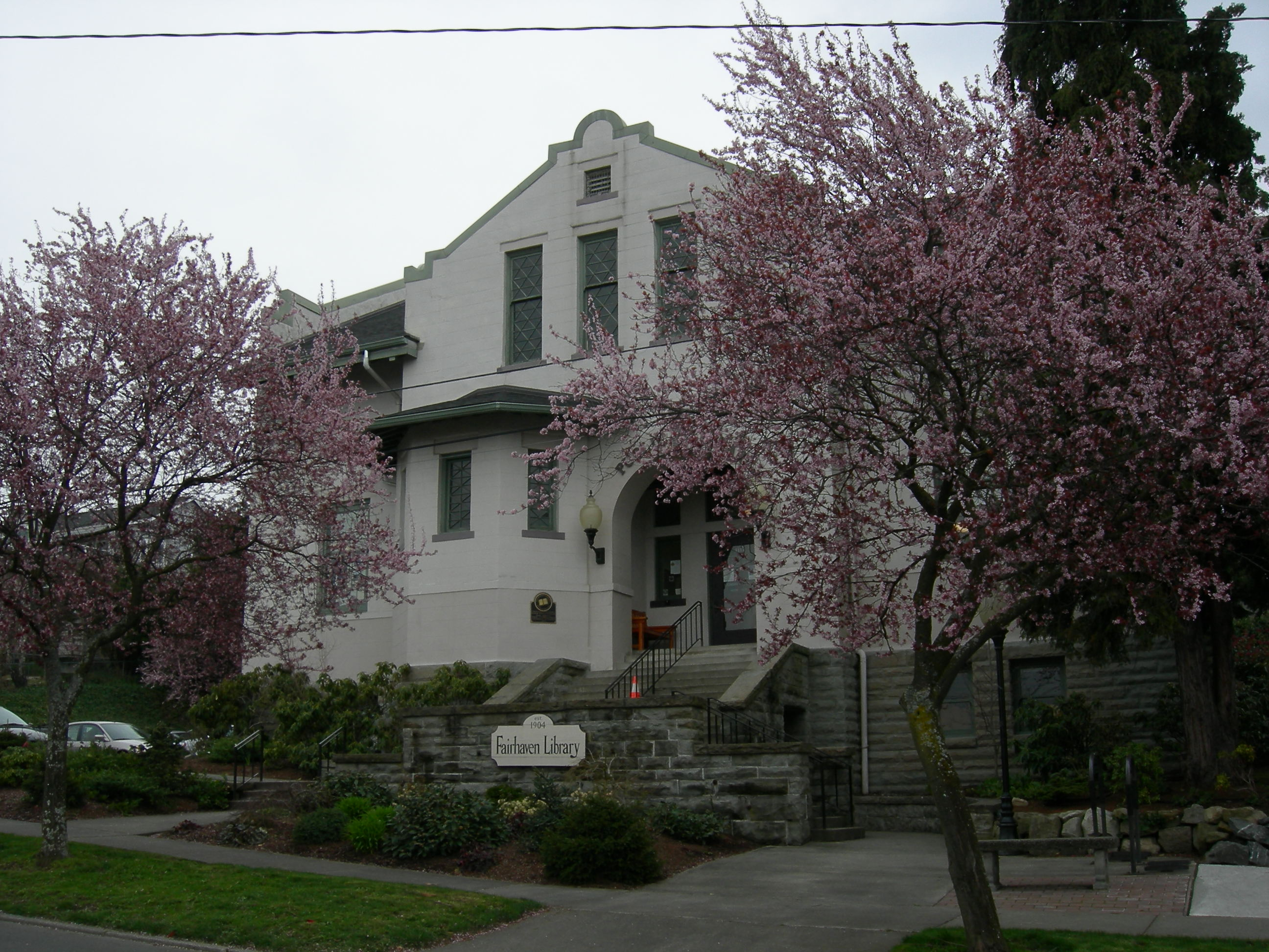 Public library, historic Fairhaven district, Bellingham, Washington.